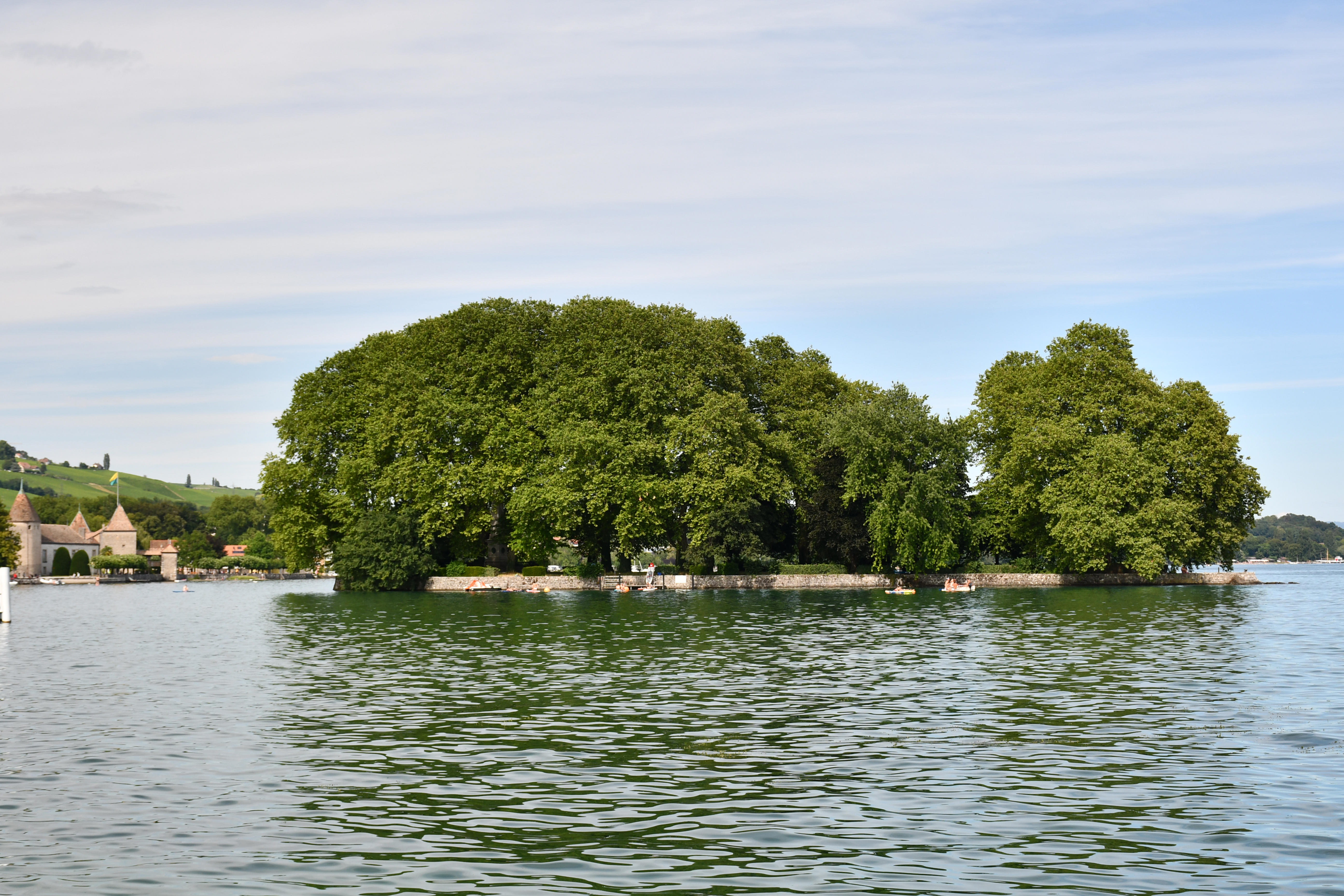 The Île de la Harpe, an island in Lake Geneva, located on the territory of the municipality of Rolle, in the canton of Vaud (Switzerland).